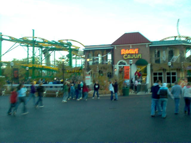 Ragin' Cajun rollercoaster at Six Flags Great America.